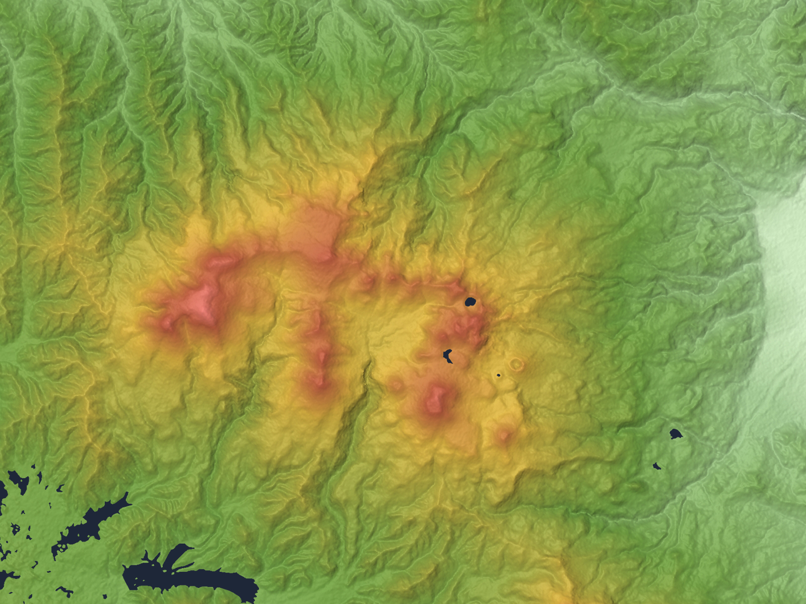 Azumayama (Mount Azuma) is a volcano in the border between Fukushima and Yamagata prefectures, Honshu, Japan.